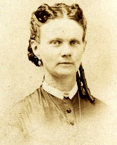 Photo of Ann Whipple Cluff, wife of William W. Cluff.